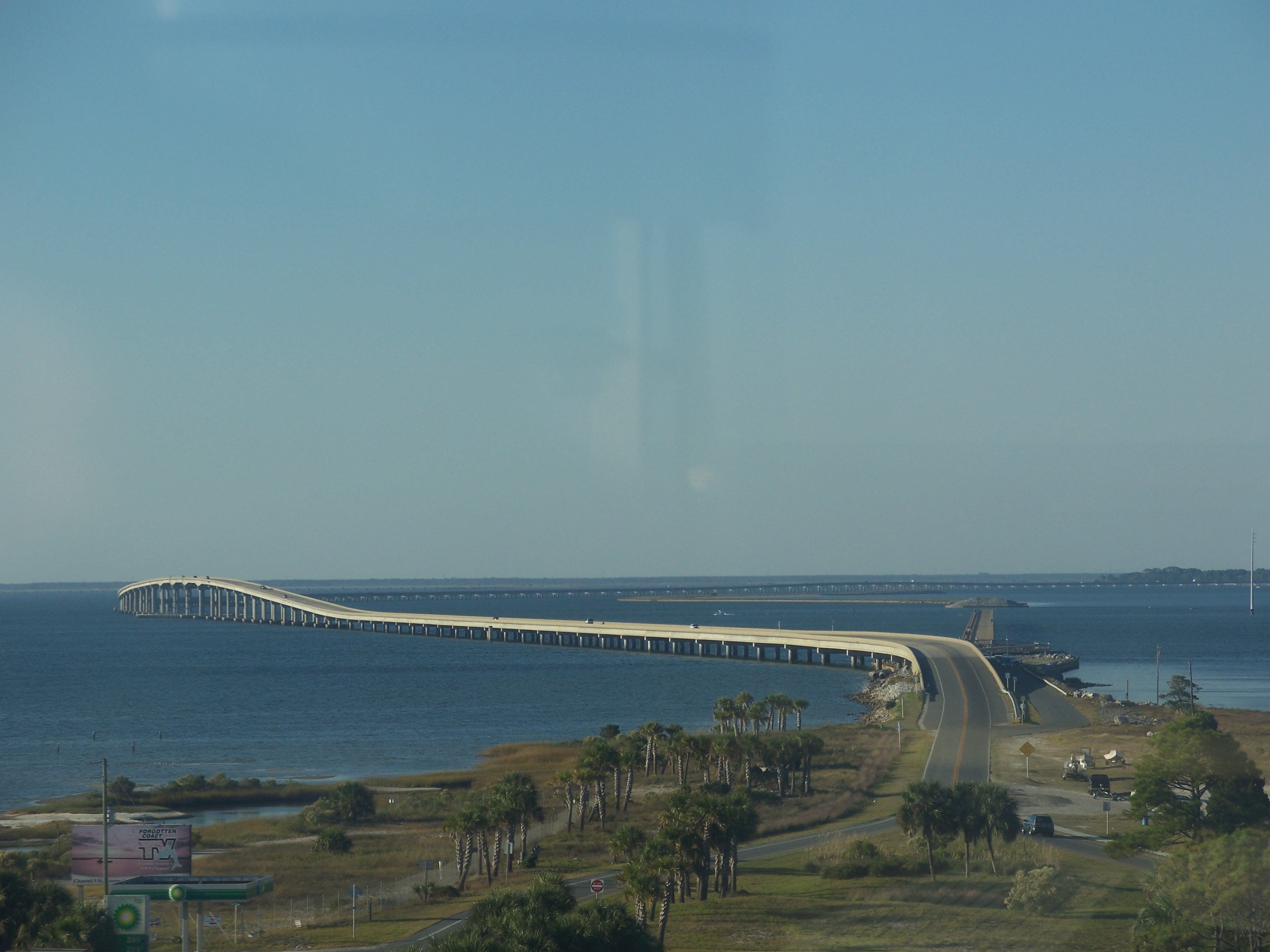 St. George Island (Florida): Cape St. George Light: Looking north from top of the lighthouse